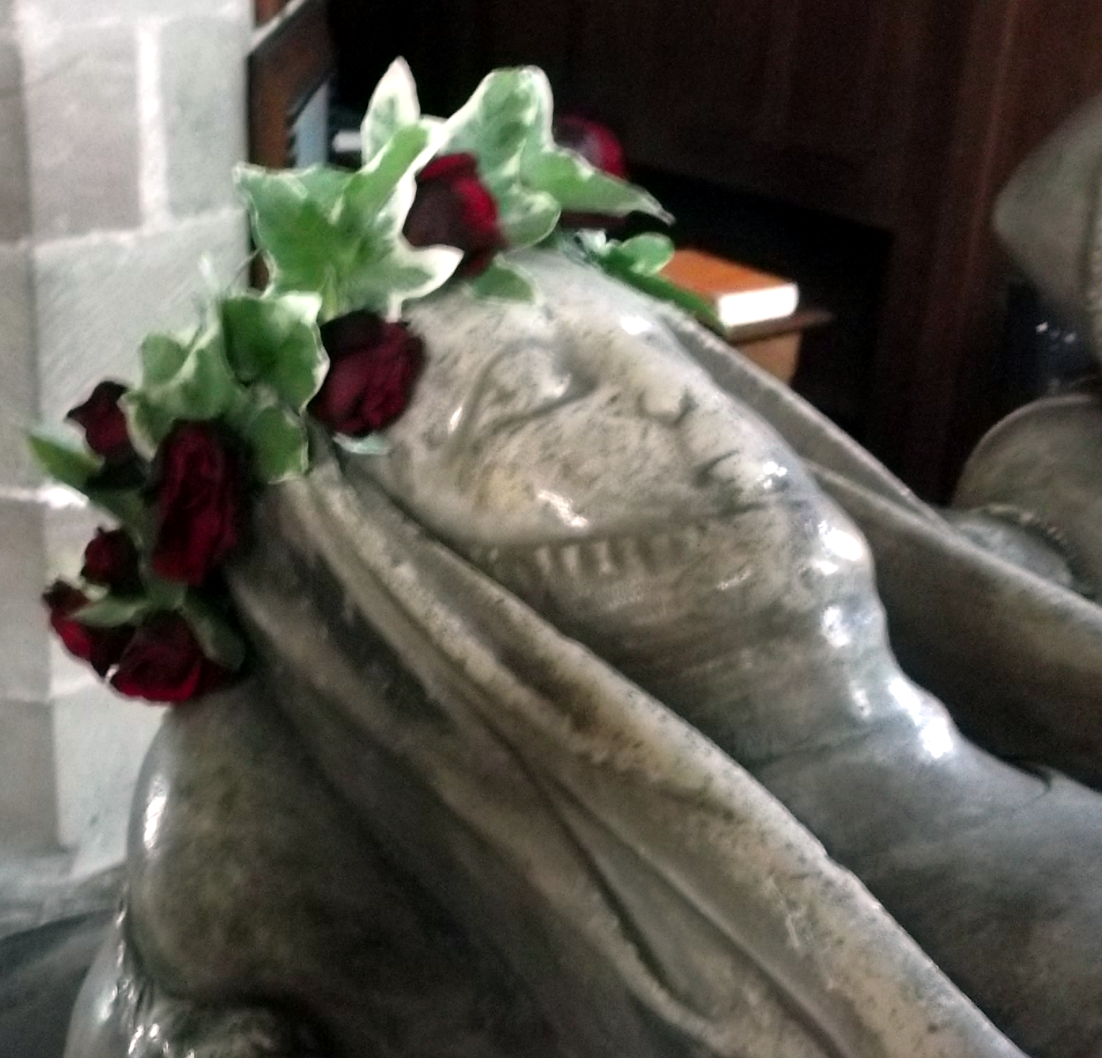 Effigy of Isabel of Lingen, adorned with a chaplet of roses and ivy. St Bartholomew's Church, Tong, Shropshire.